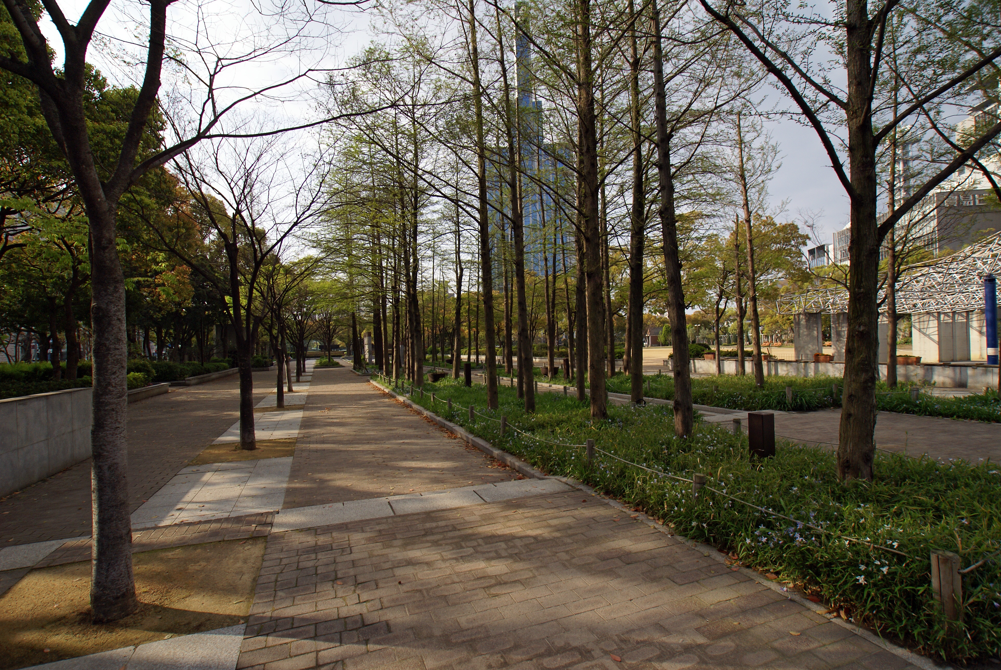 Higashi-yuenchi, Kobe, Hyogo prefecture, Japan